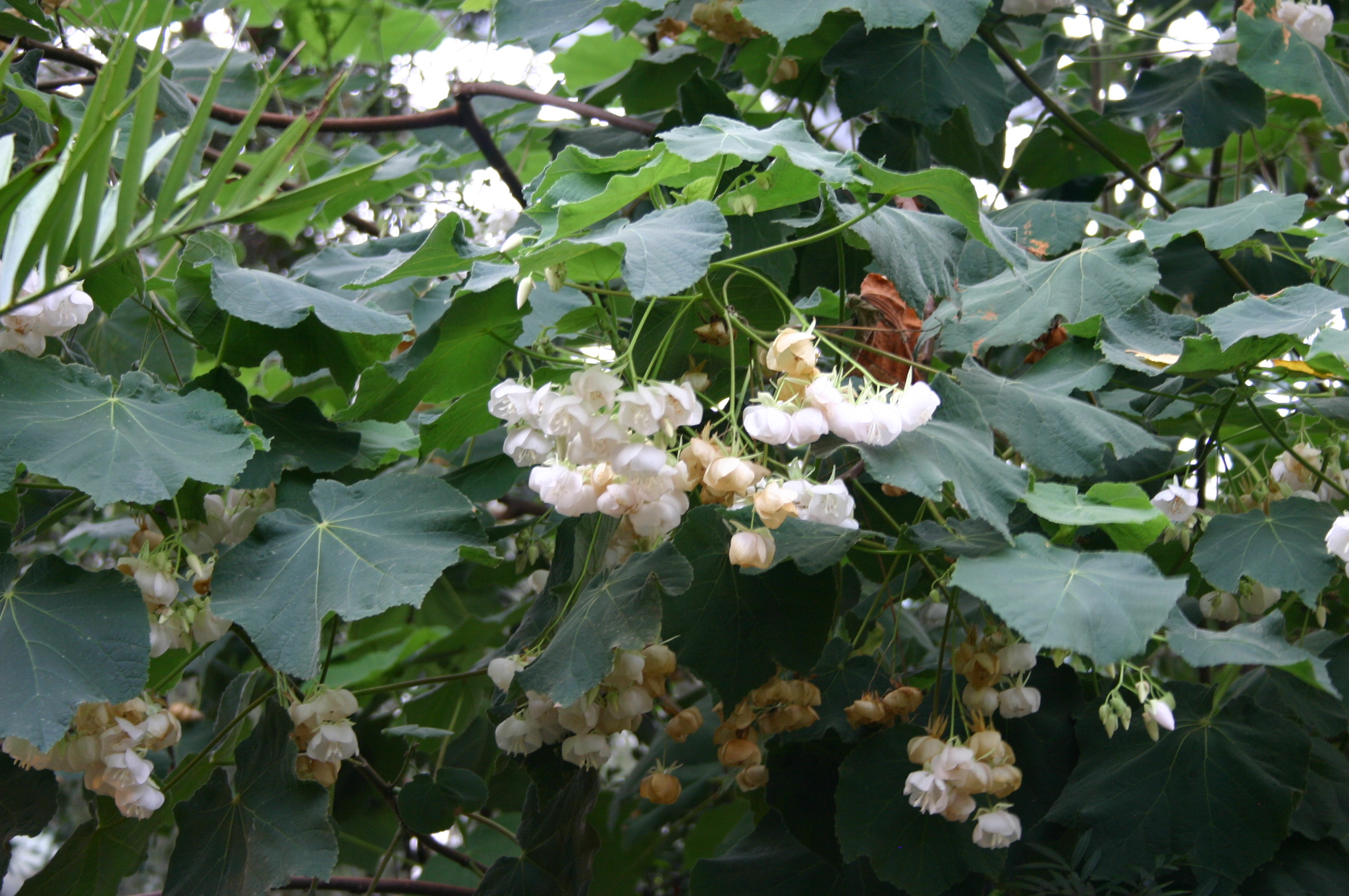 Dombeya burgessiae Gerrard Taken at the Hortus Botanicus Amsterdam. Visit for daily doses of ionian enchantment.